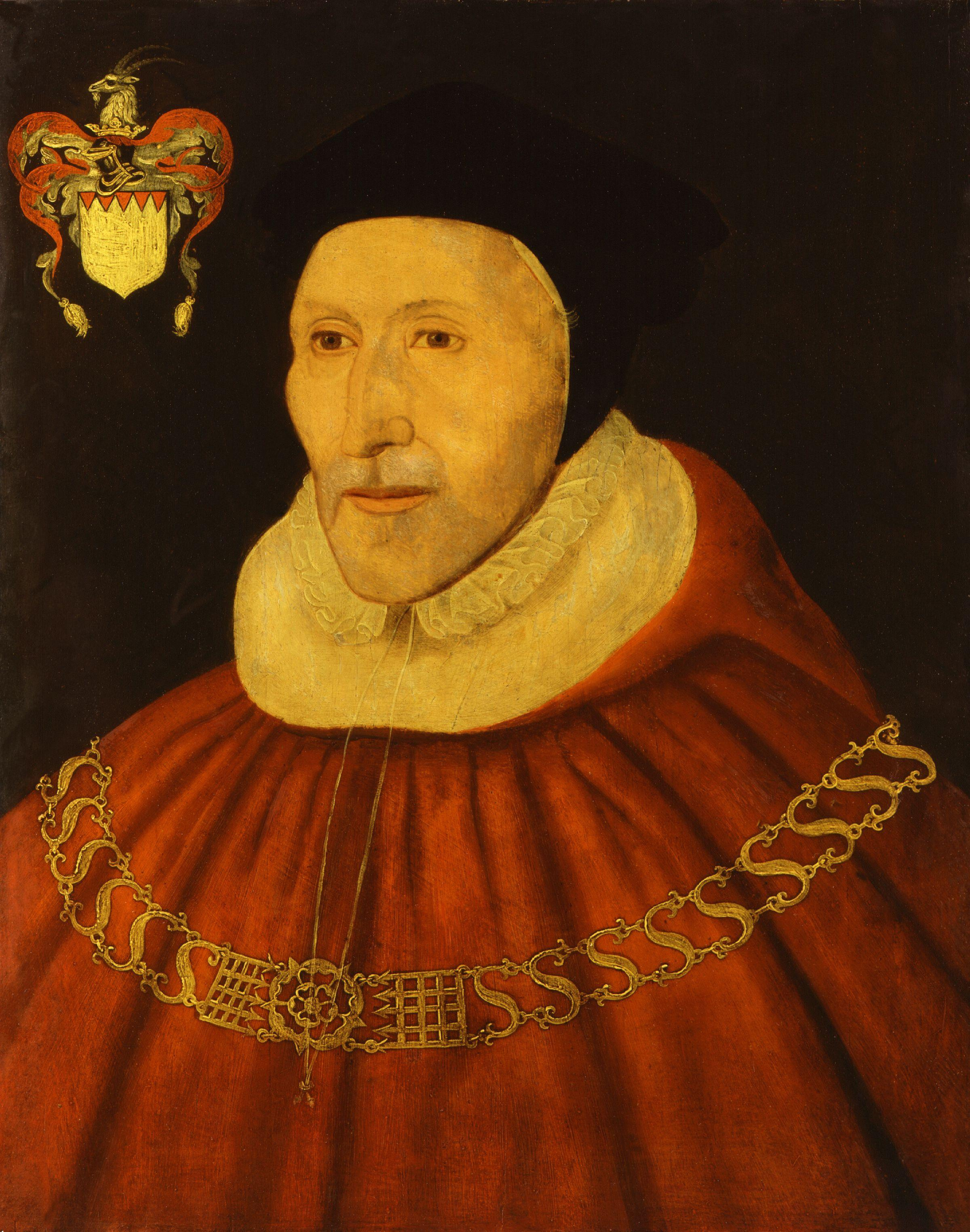 All images in this batch have an unknown author, but there is strong evidence it was first published before 1923 (based mainly on the NPG's estimated date of the work).